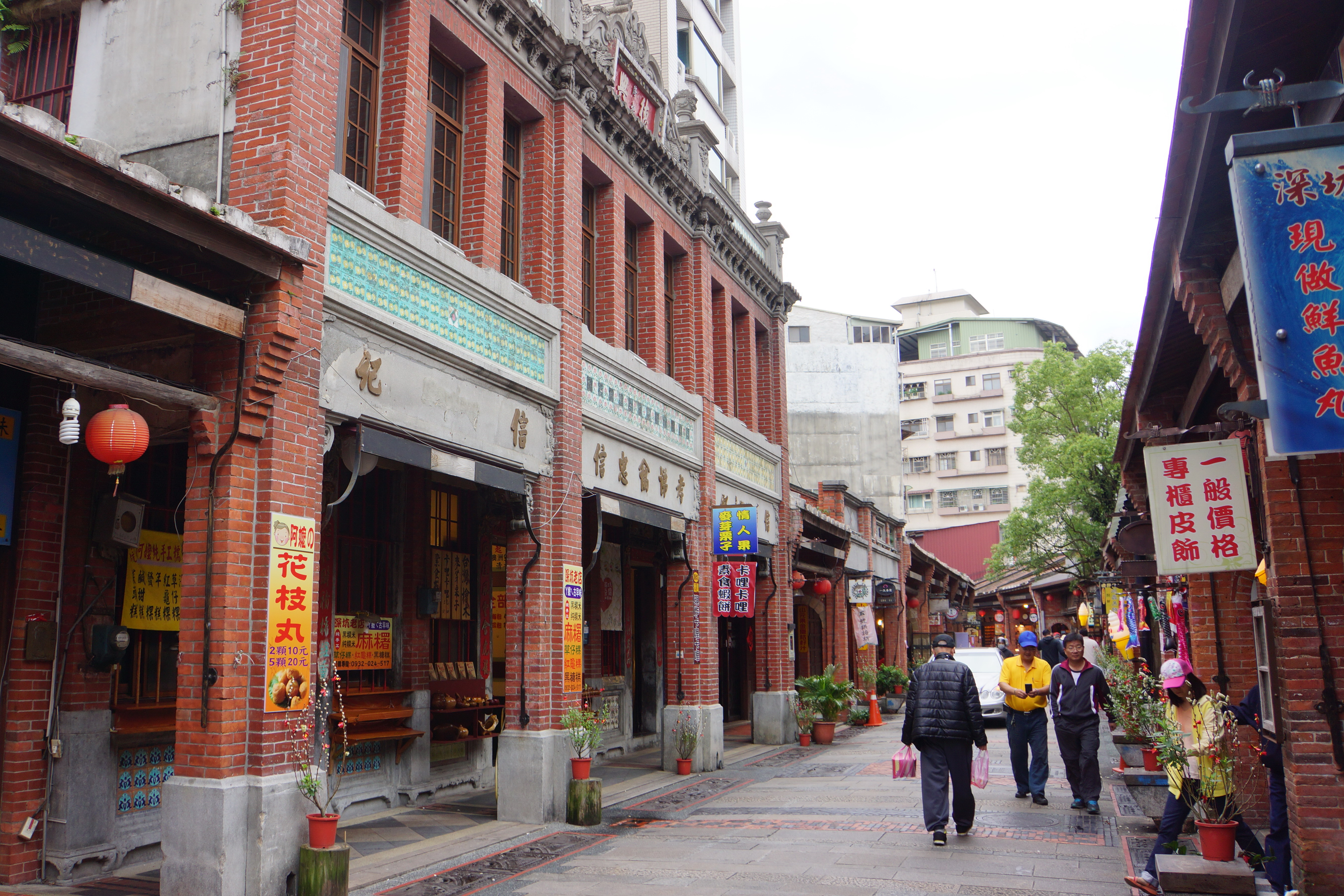 深坑老街 Shenkeng Historical Street